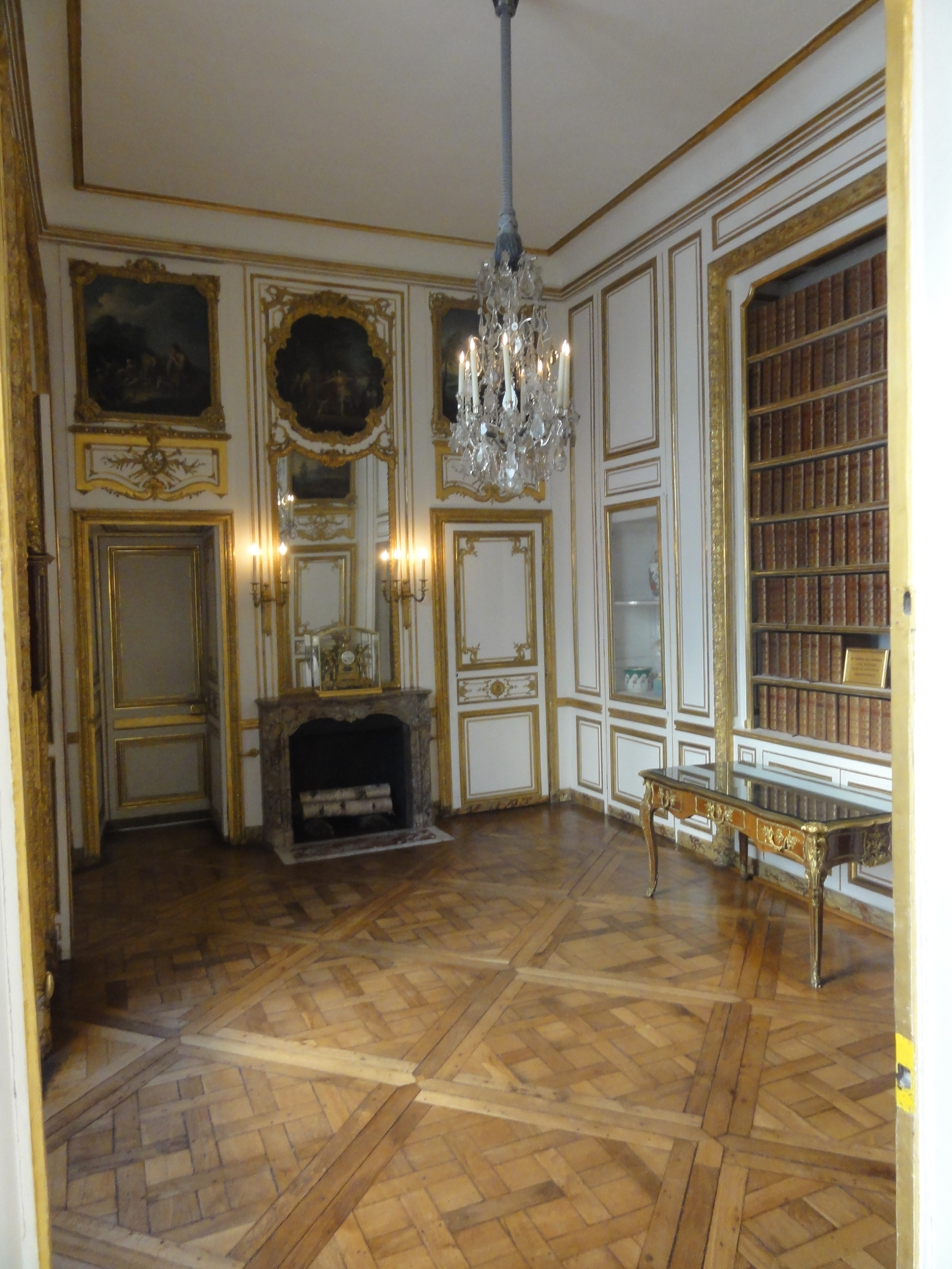 Palace of Versailles, the Cabinet des Dépêches